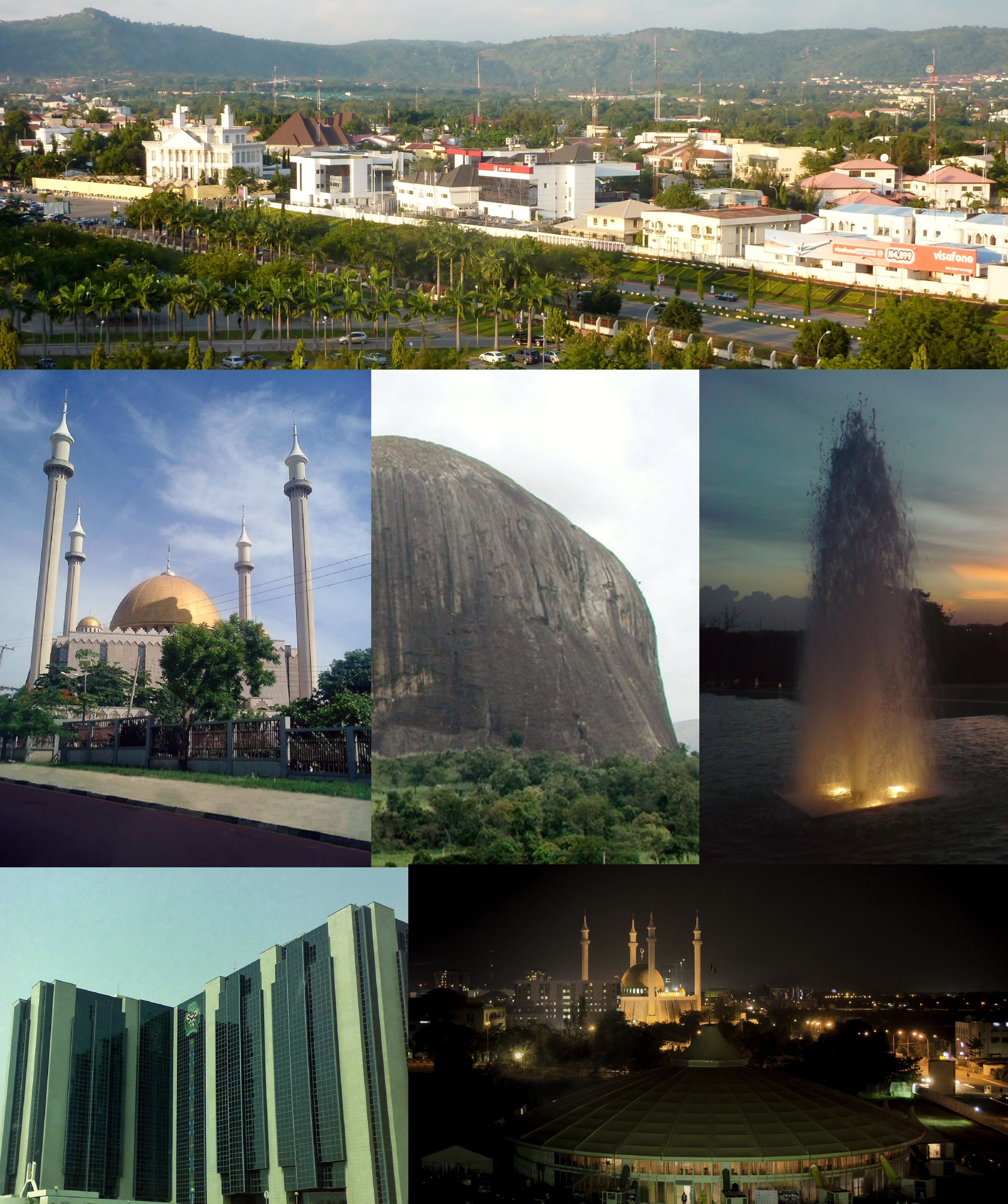 Collage of Abuja images